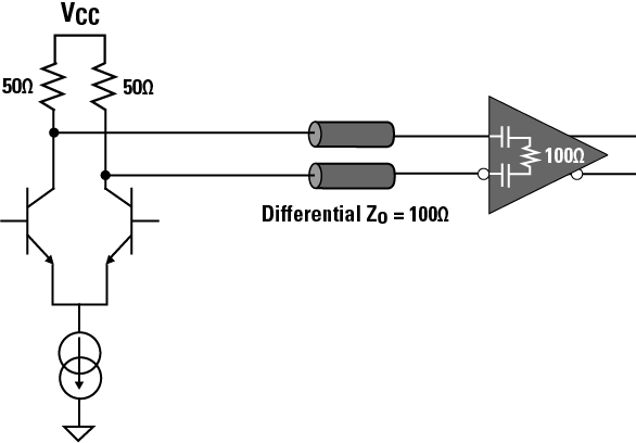 Typical CML circuit implementation for 100 Ohm differential transmission line.